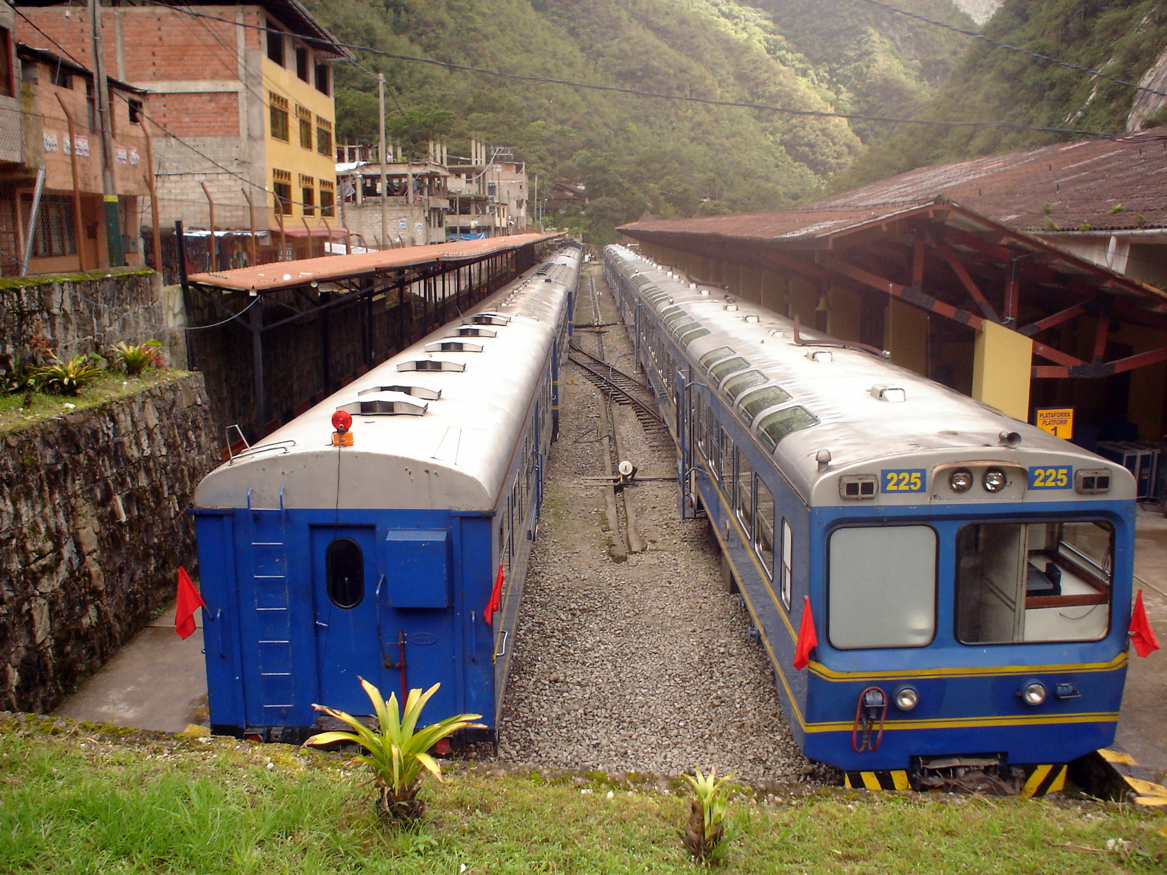 Train station in Aguas Caliente, Peru